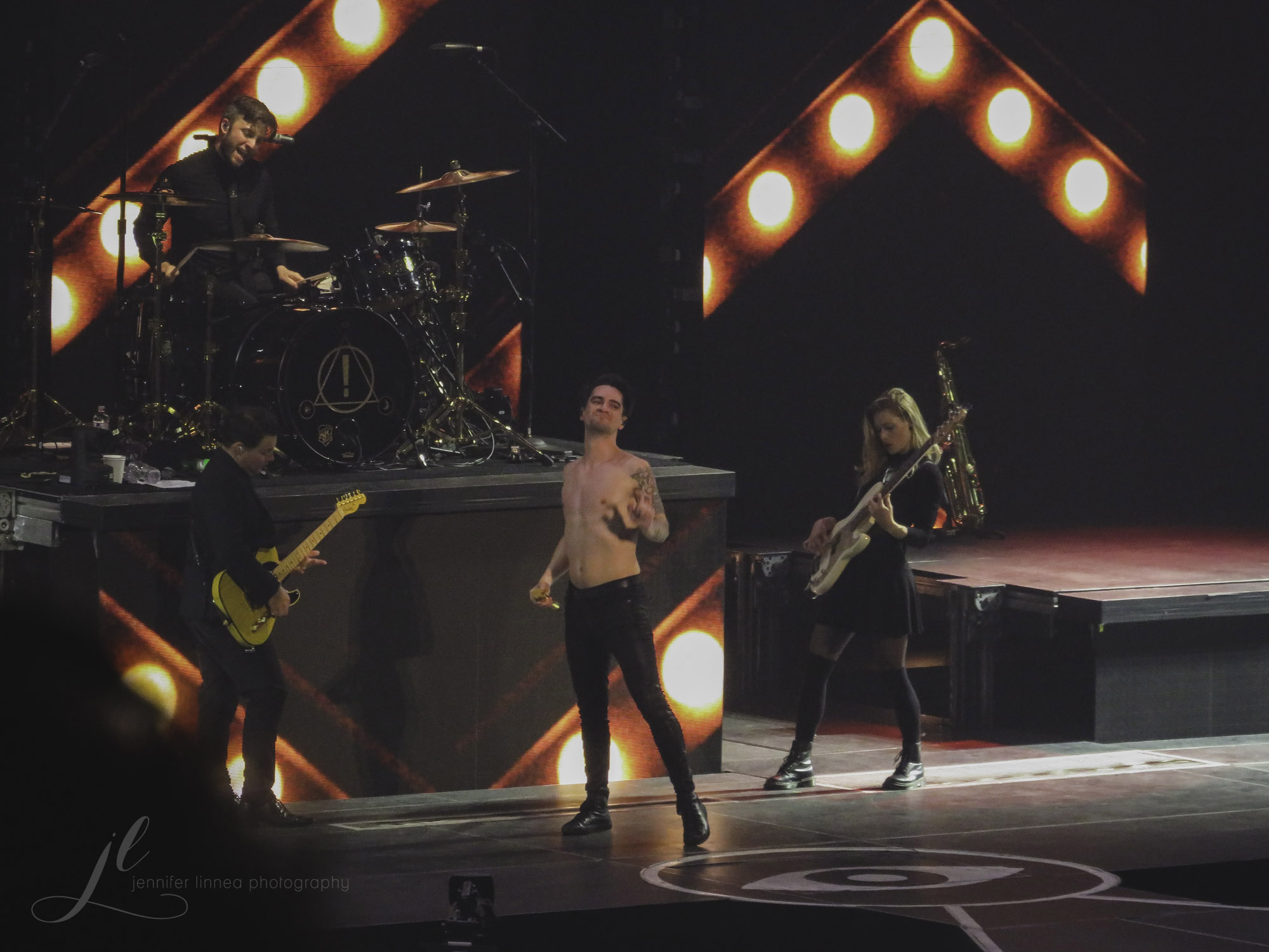 Panic! At the Disco on stage during the Pray for the Wicked Tour stop in Denver, CO at the Pepsi Center on August 7, 2018.